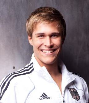 Alexander Wieczerzak, Judoka from Germany